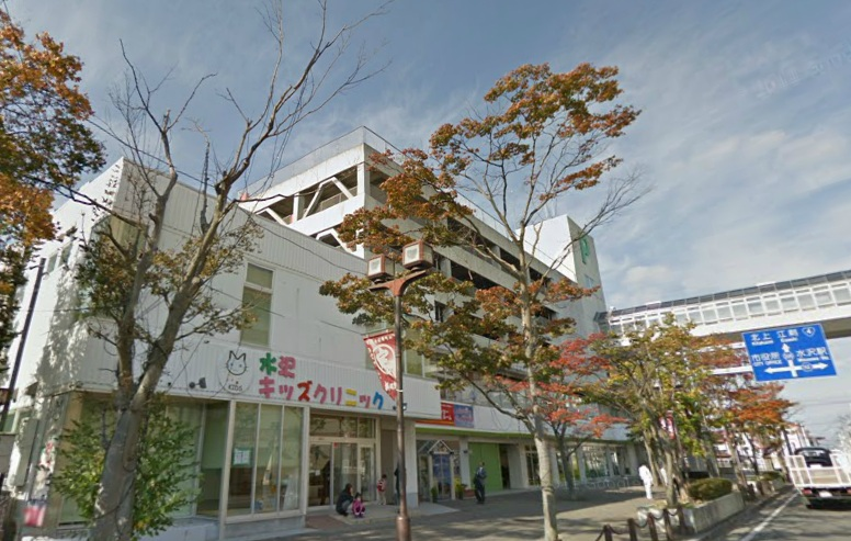 nishikan